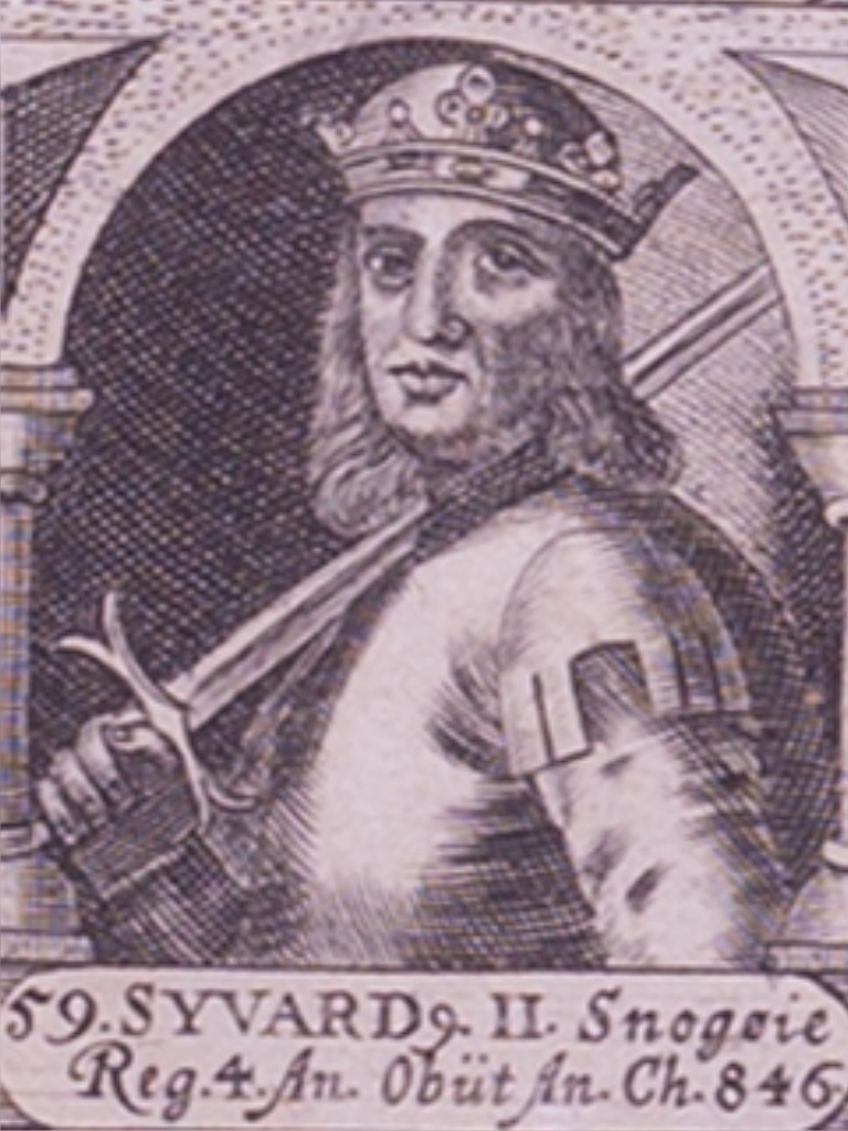 From an engraving published 1670 with the title 'Veræ effigies regum omnium qvi a primo Dan usqe Christianum IV modo regnantem imperii Danici gloria eminuerunt' - here the part depicting the Danish (semi-legendary) king Sigurd Snake-in-the-Eye (9th century). Published by Erico Olai Tormio